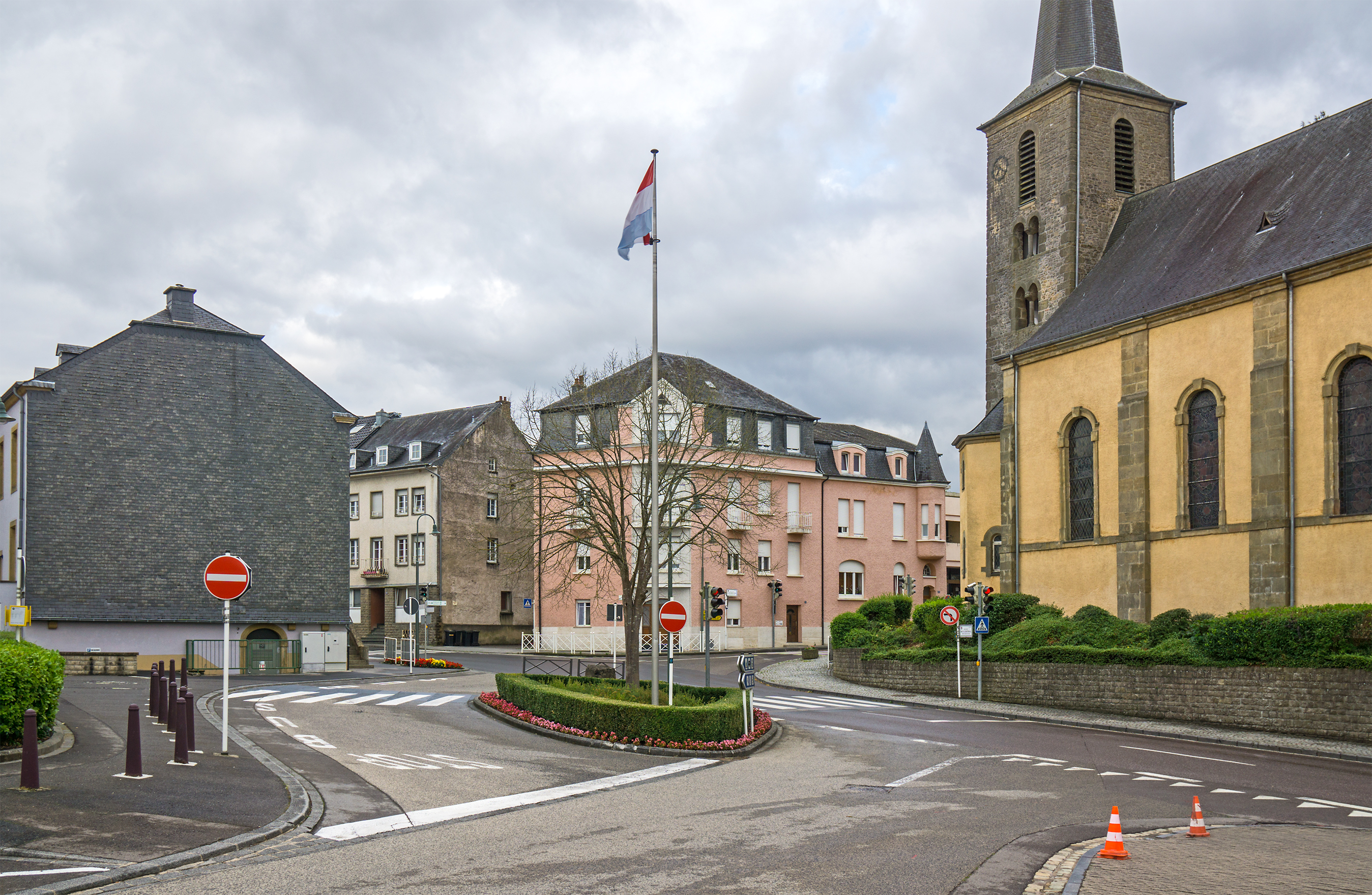 Main crossing in Consdorf at the church